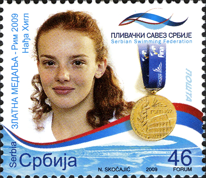 FINA world Championships - Rome 2009